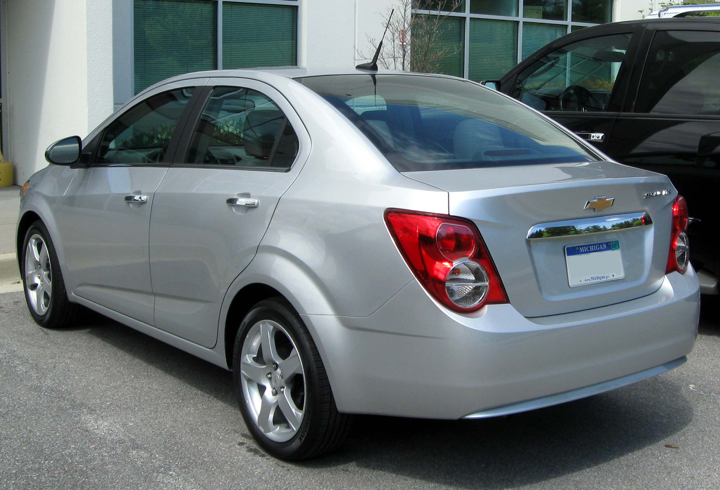 2012 Chevrolet Sonic photographed in Upper Marlboro, Maryland, USA.